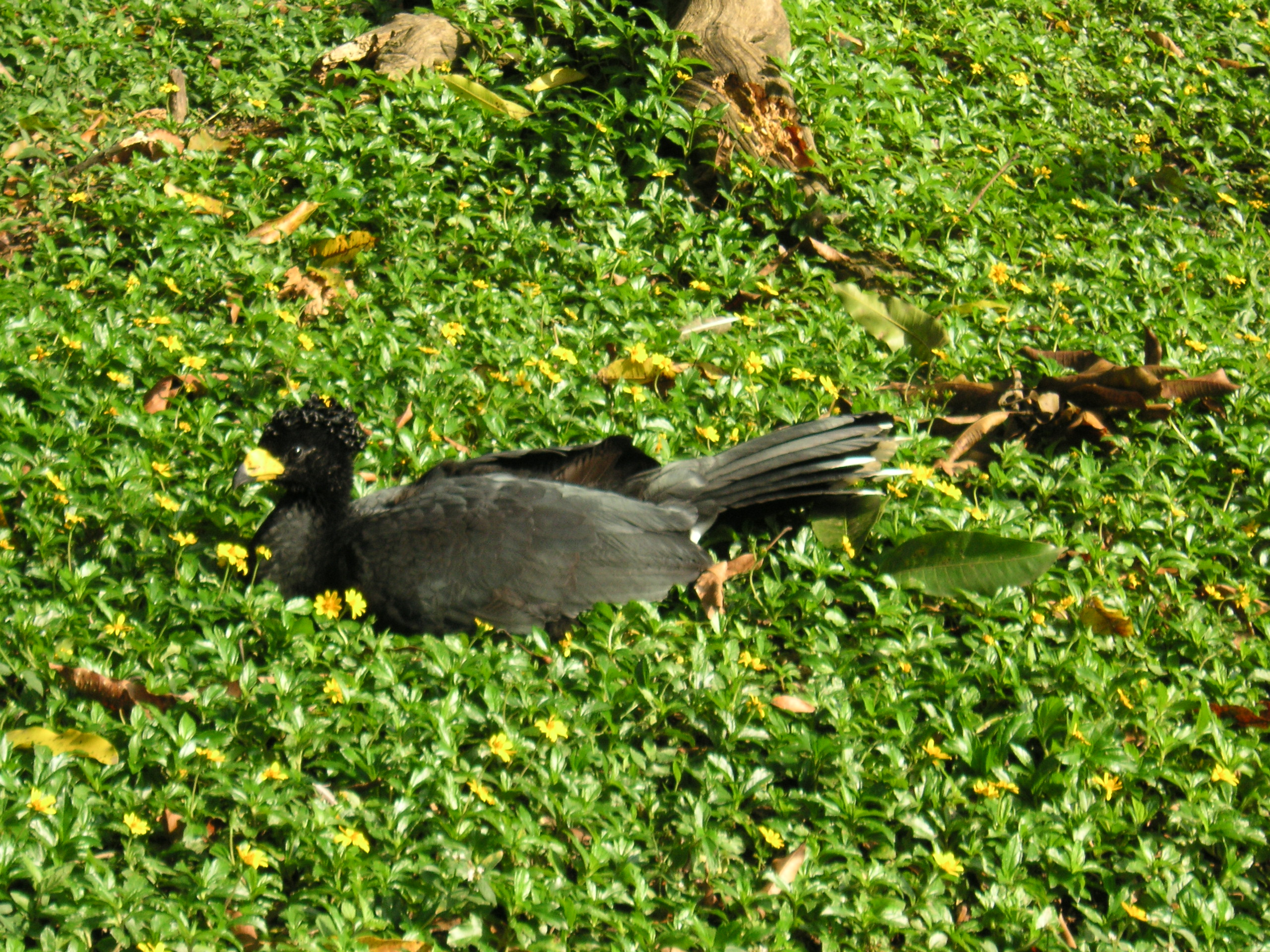 Crax daubentoni, at Caracas Zoo, Venezuela